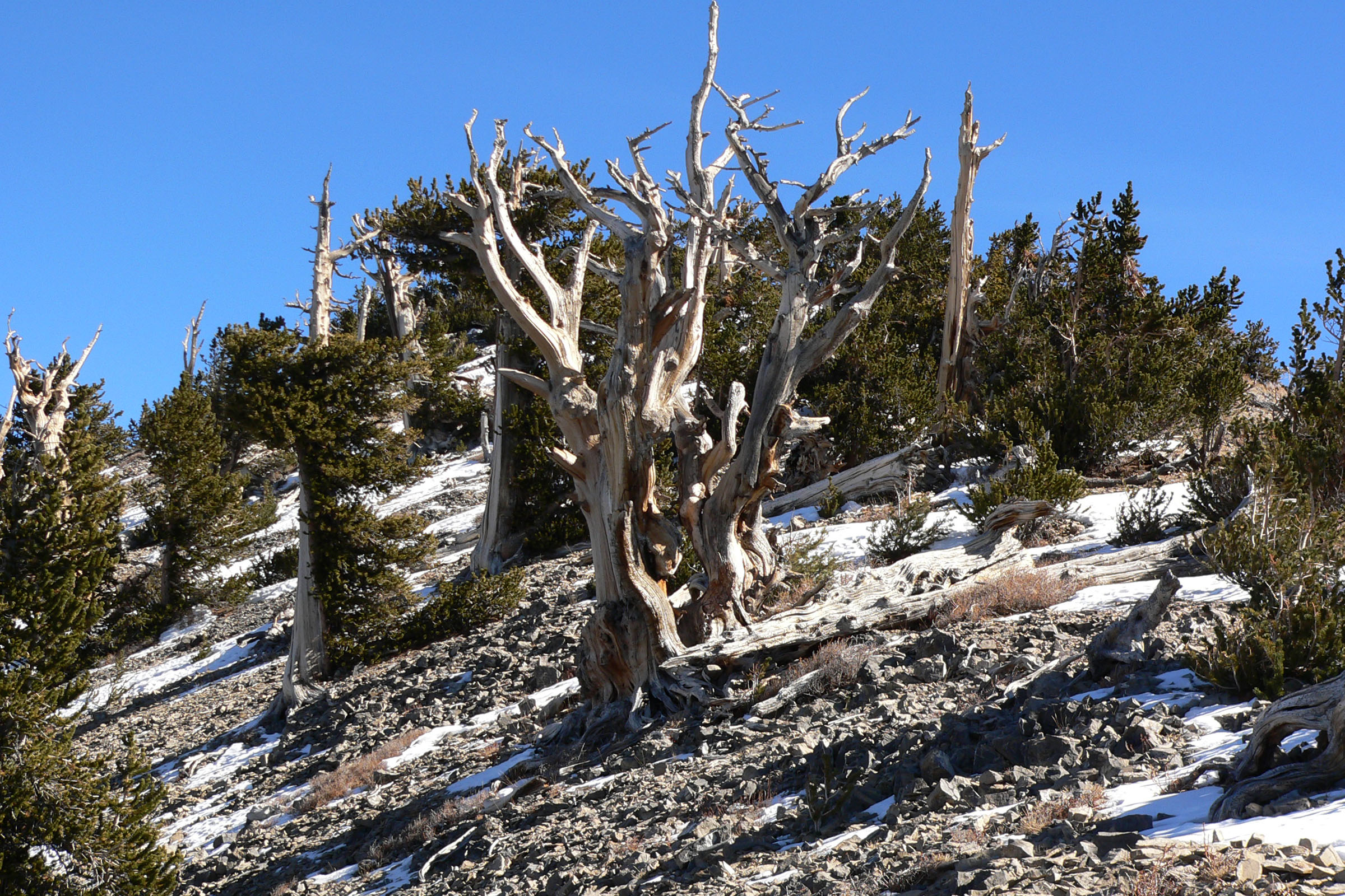 Pinus longaeva at the summit of Griffith Peak (3,371 m), Spring Mountains, southern Nevada